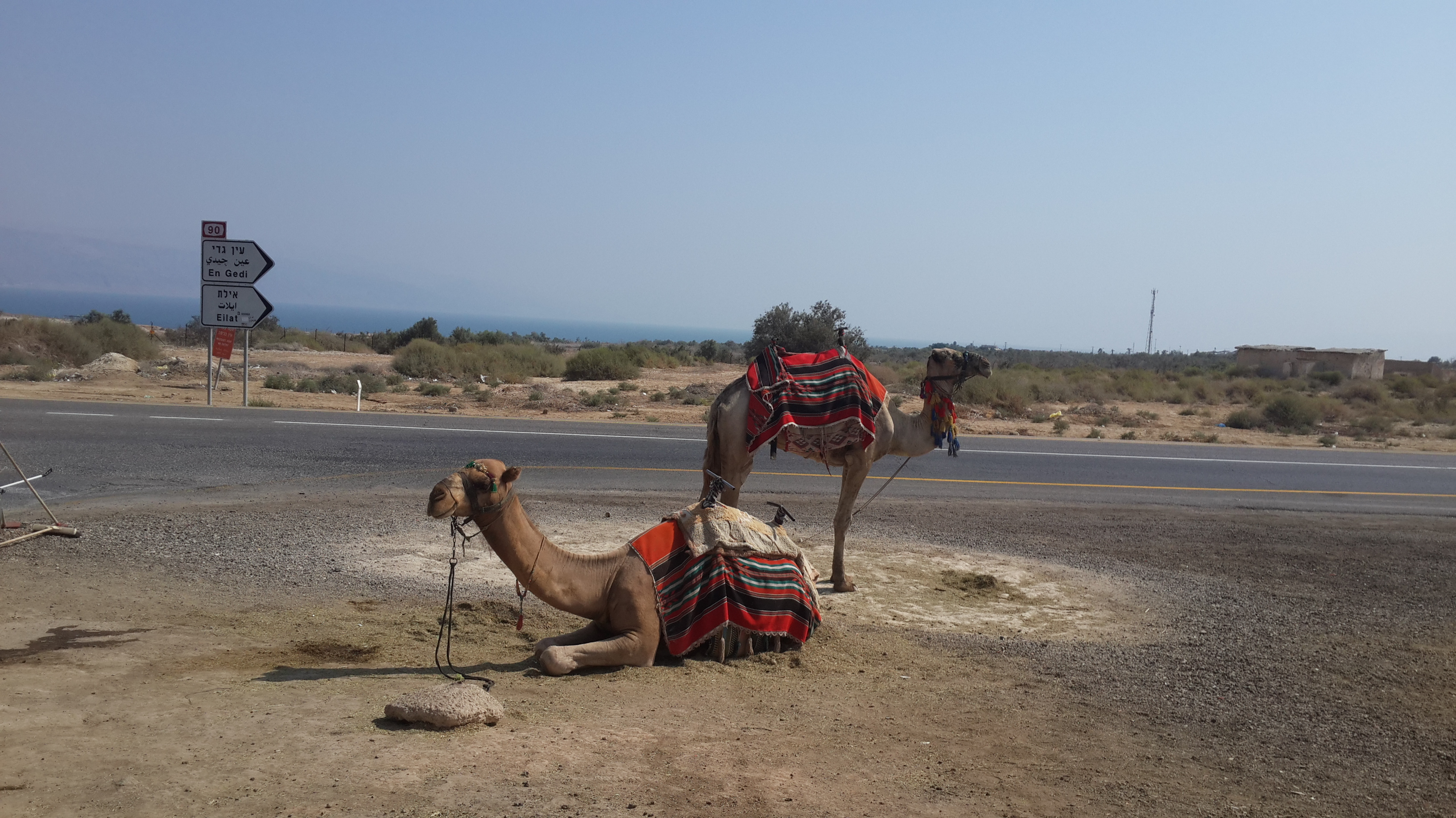 Camels at the gas station near The Dead Sea